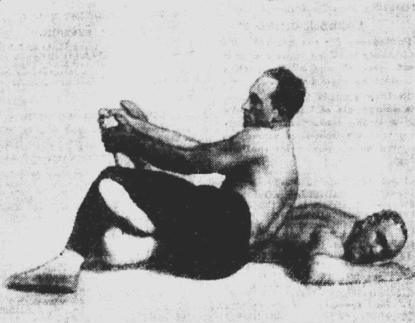 Original Caption: Billy Meeske, showing the dreaded toe-hold, with which Frank Gotch beat Hackenschmidt for the world's championship.